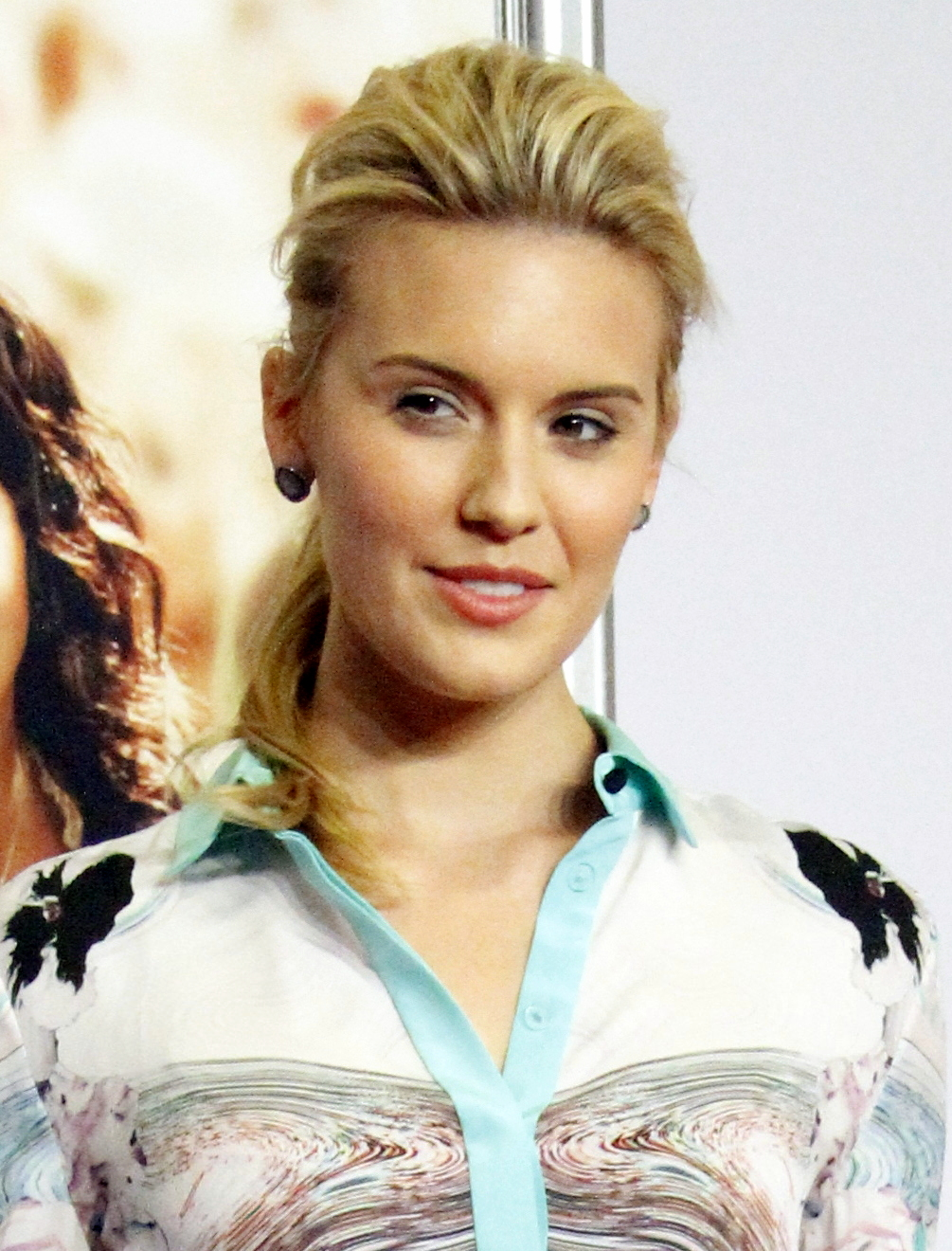 Maggie Grace at the Won't Back Down NYC Premiere, Ziegfeld Theater in 2012.